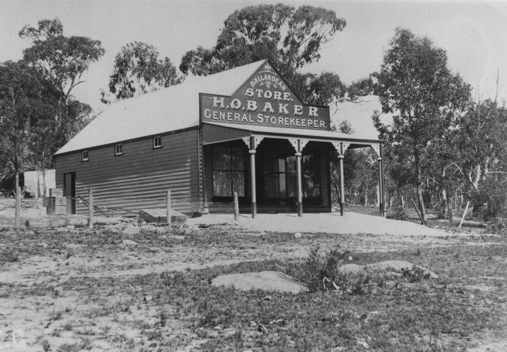 General store at Ballandean, ca. 1920. General store owned by H. O. Baker, housed in a timber building with a verandah shading the front of the store.